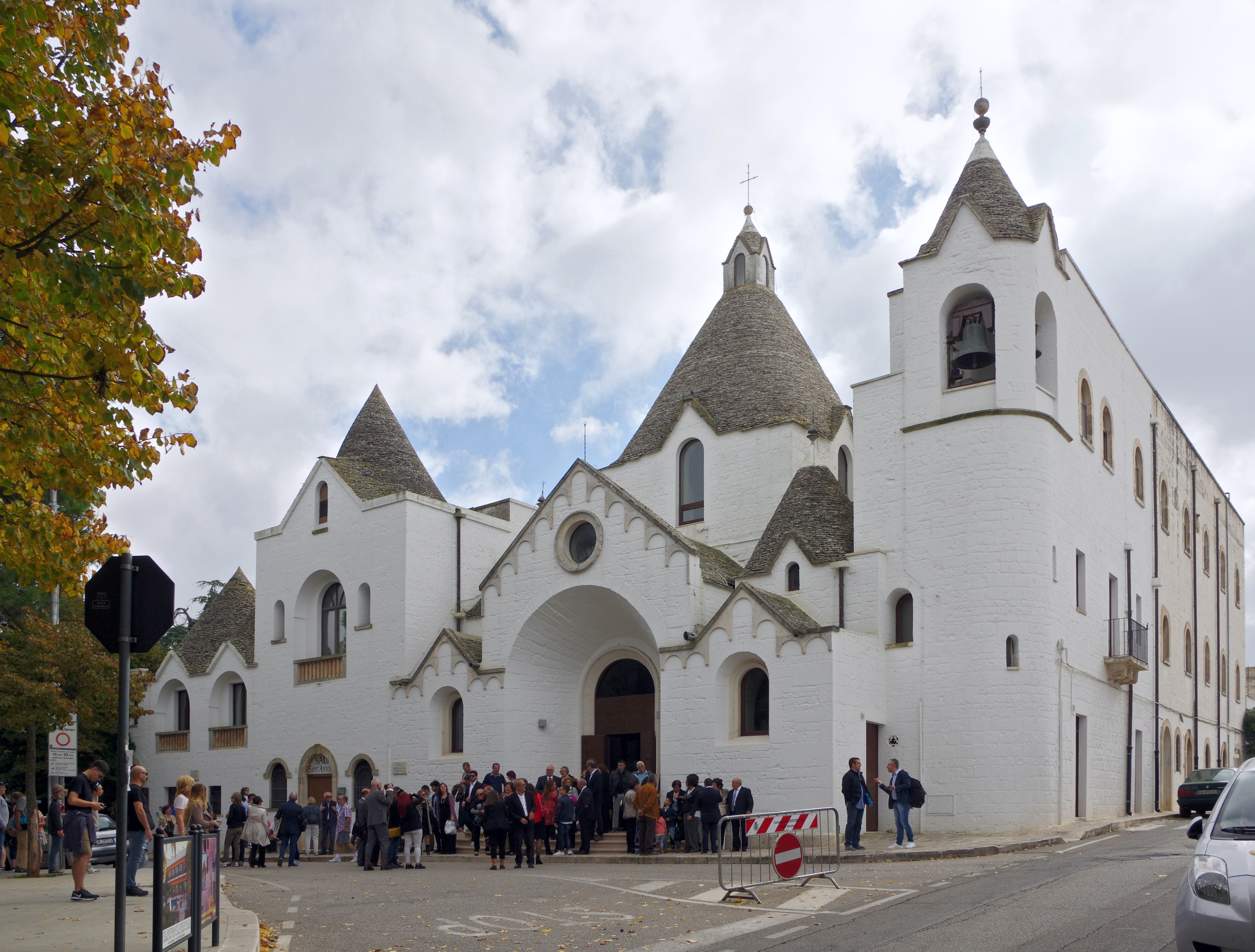 Italy, Alberobello, Trullo church St. Antony of Padua